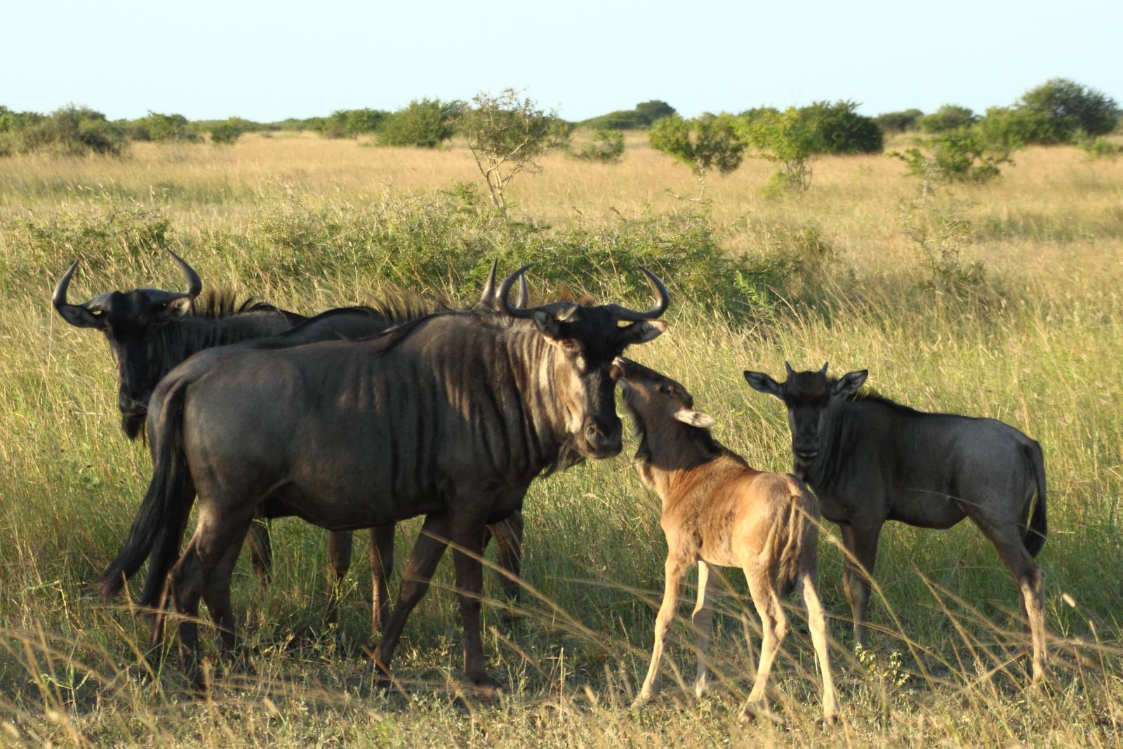 Wildebeest foals